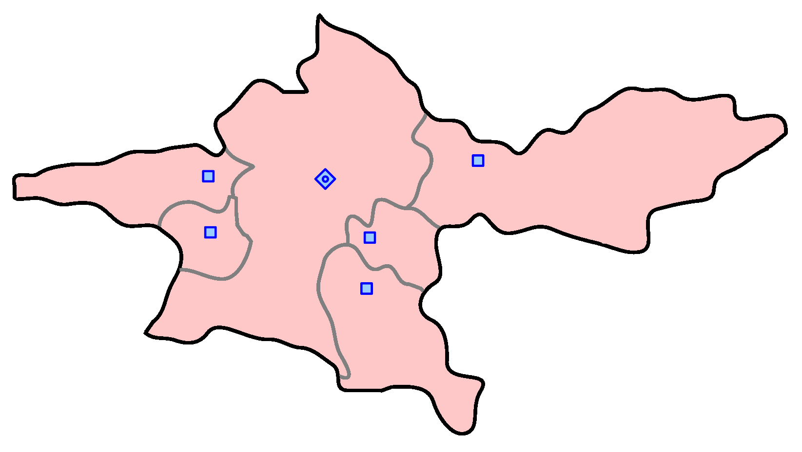 map of the electoral districts of Tehran Province, Iran